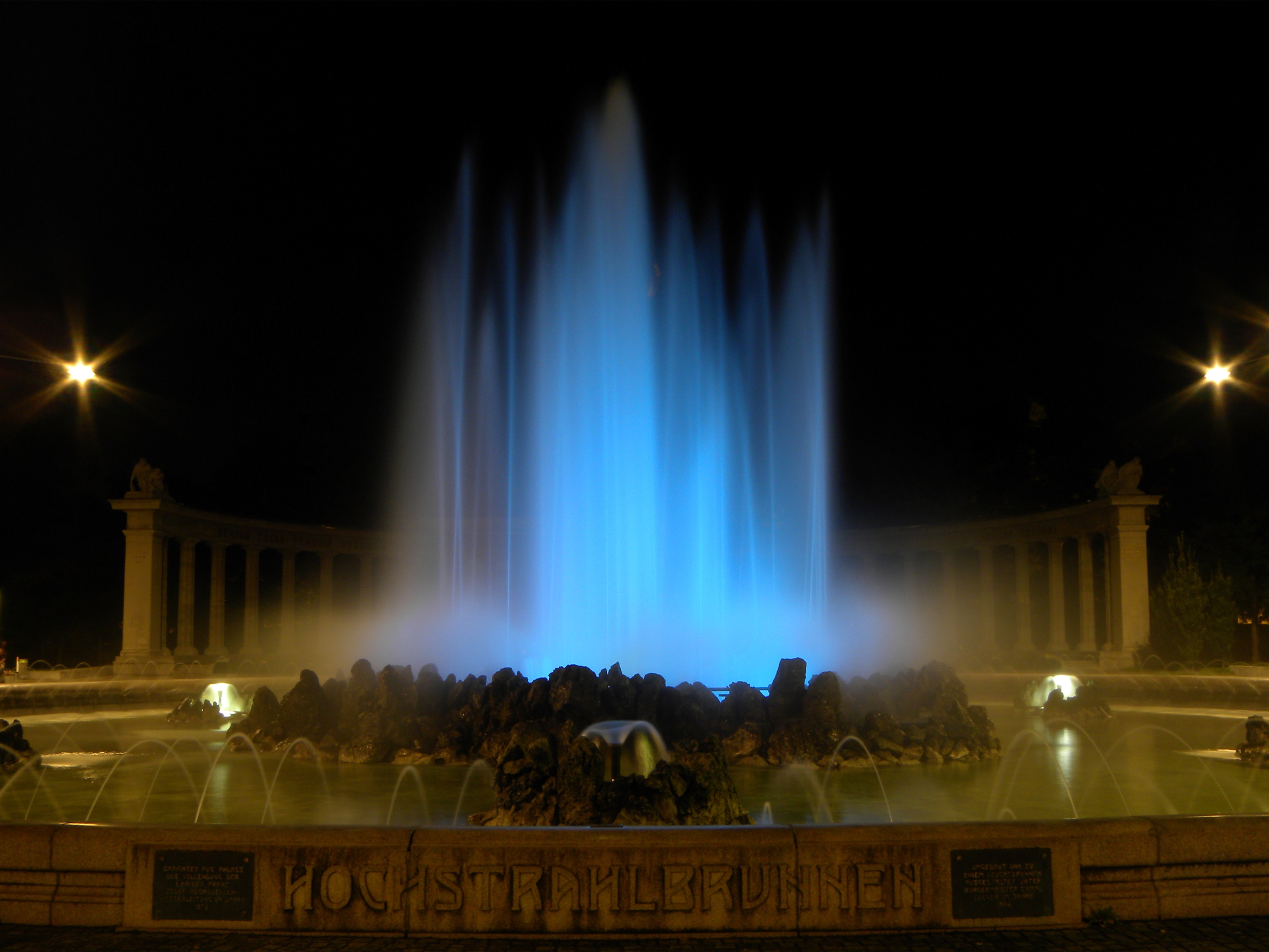 Hochstrahlbrunnen Vienna